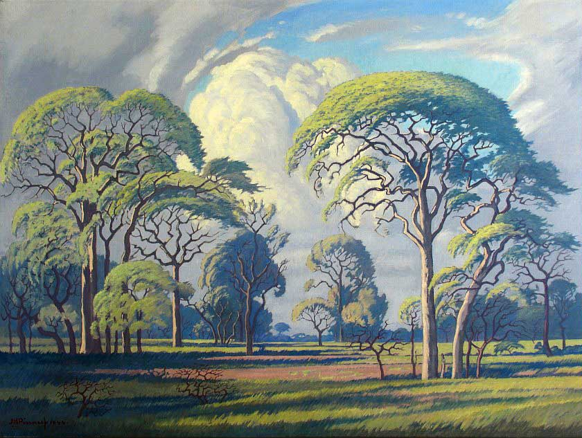 Pierneef, Jakob Hendrik - Leadwood trees - Bushveld.